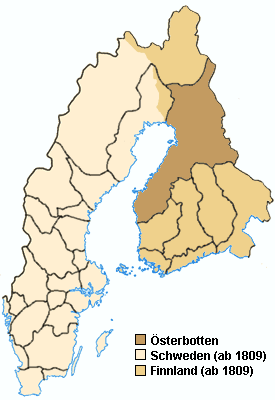 Historical province of Ostrobothnia